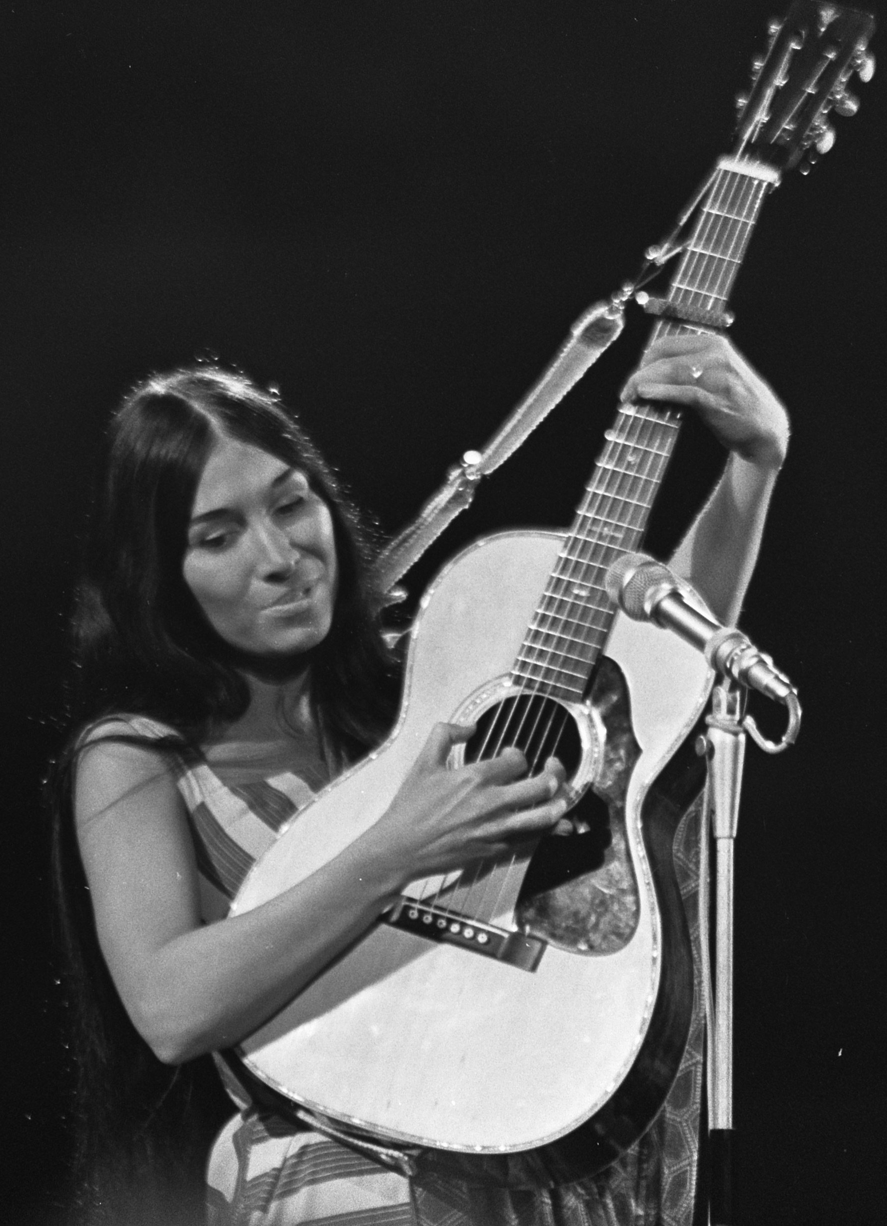 The image is a photograph of Buffy Sainte-Marie performing, with guitar, at the 1968 Grand Gala du Disque in Amsterdam. Cropped to frame the subject with little negative space.